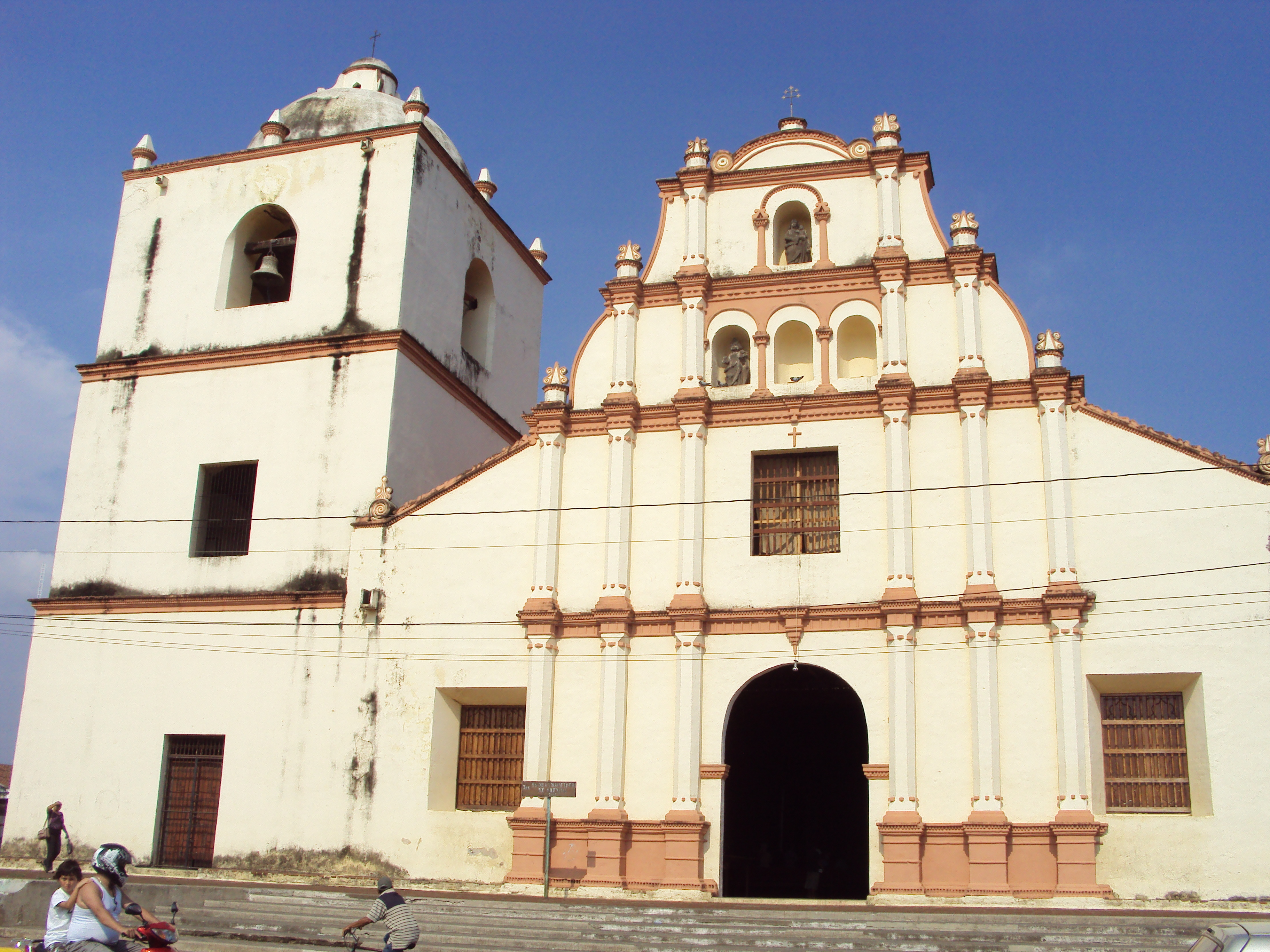 Church of Saint John the Baptist in Subtiava, León, Nicaragua.